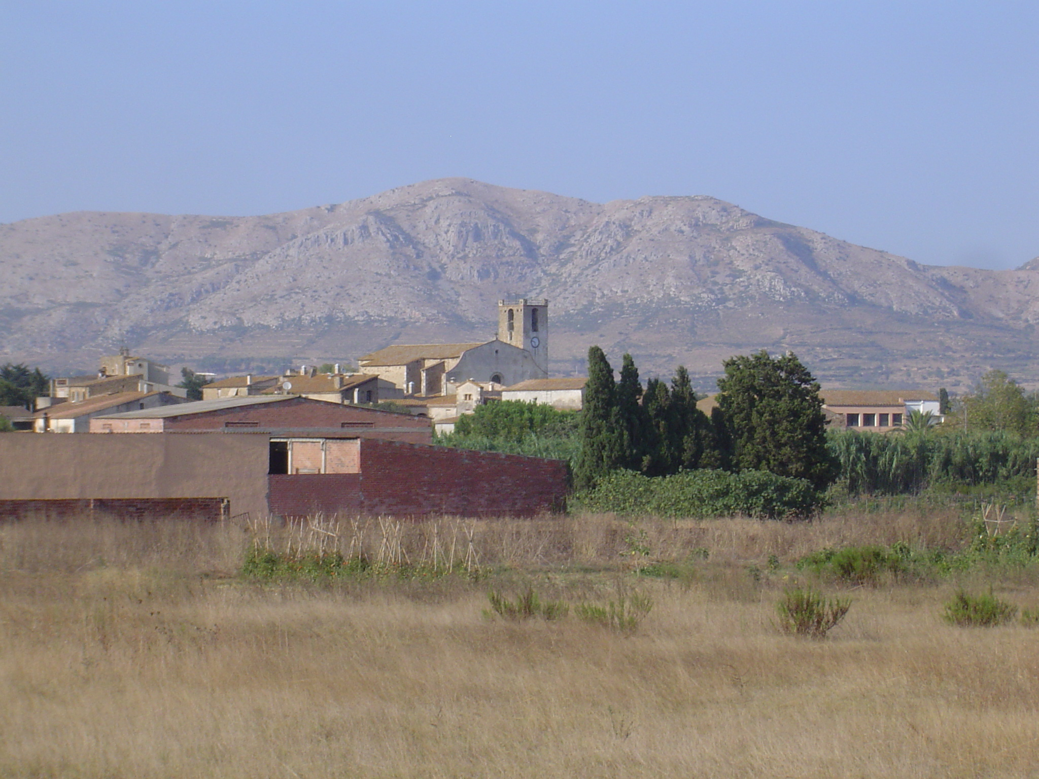 Imatge panoràmica del casc antic de Gualta. Al fons la muntanya d'Ullà.